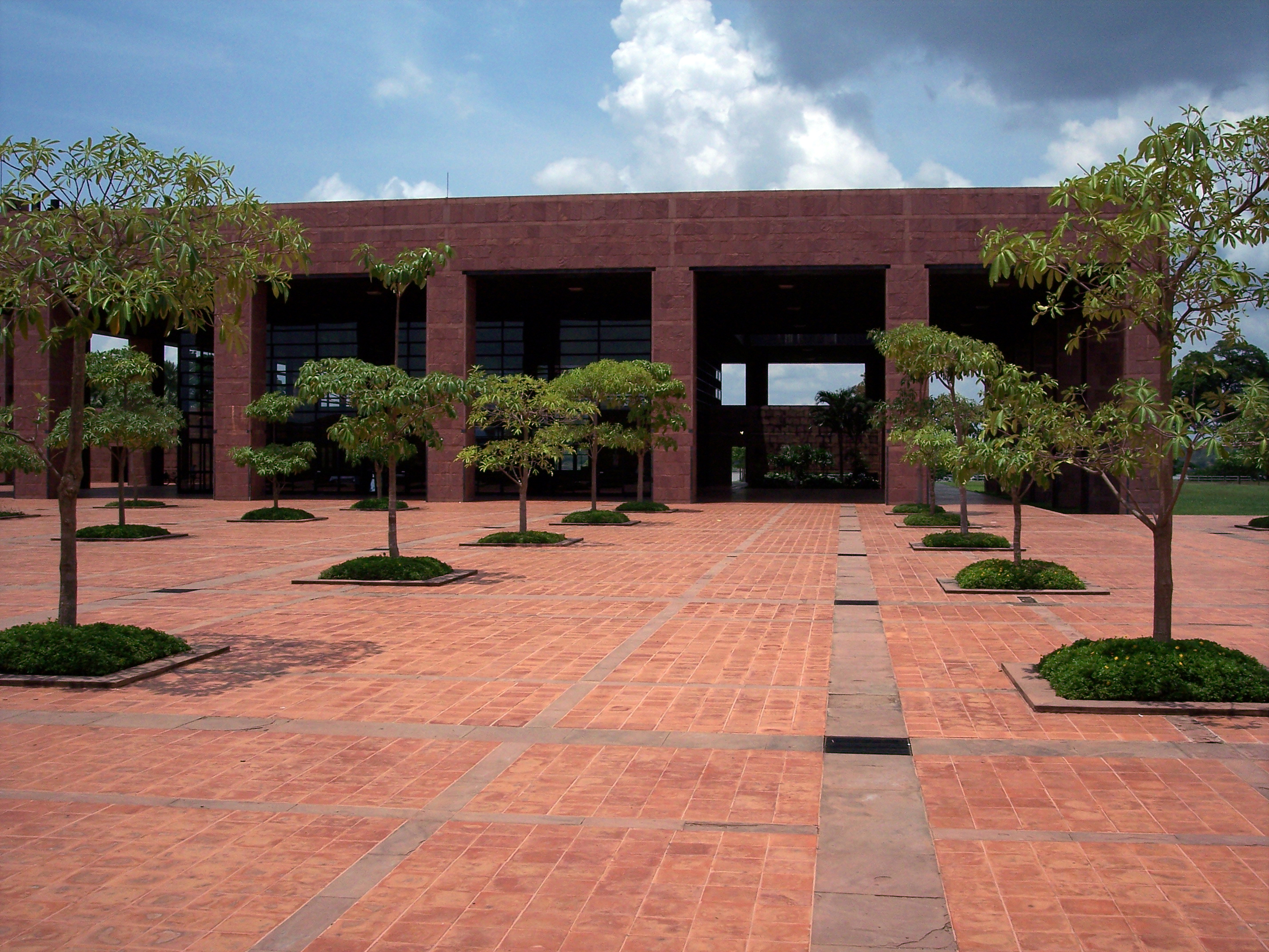 Exterior of the main structure and church at the Our Lady of the Martyrs of Thailand Shrine in Mukdahan province, Thailand.